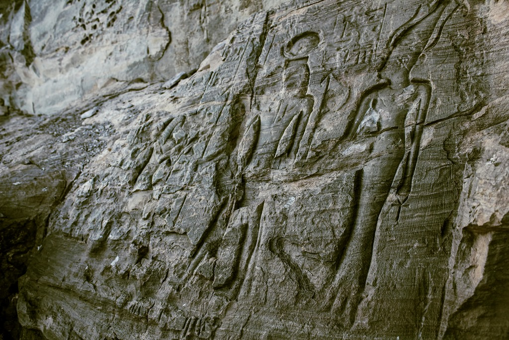 Sunk relief of Seti I’s Viceroy of Kush, Amenemipet, with Lunar God and Satet